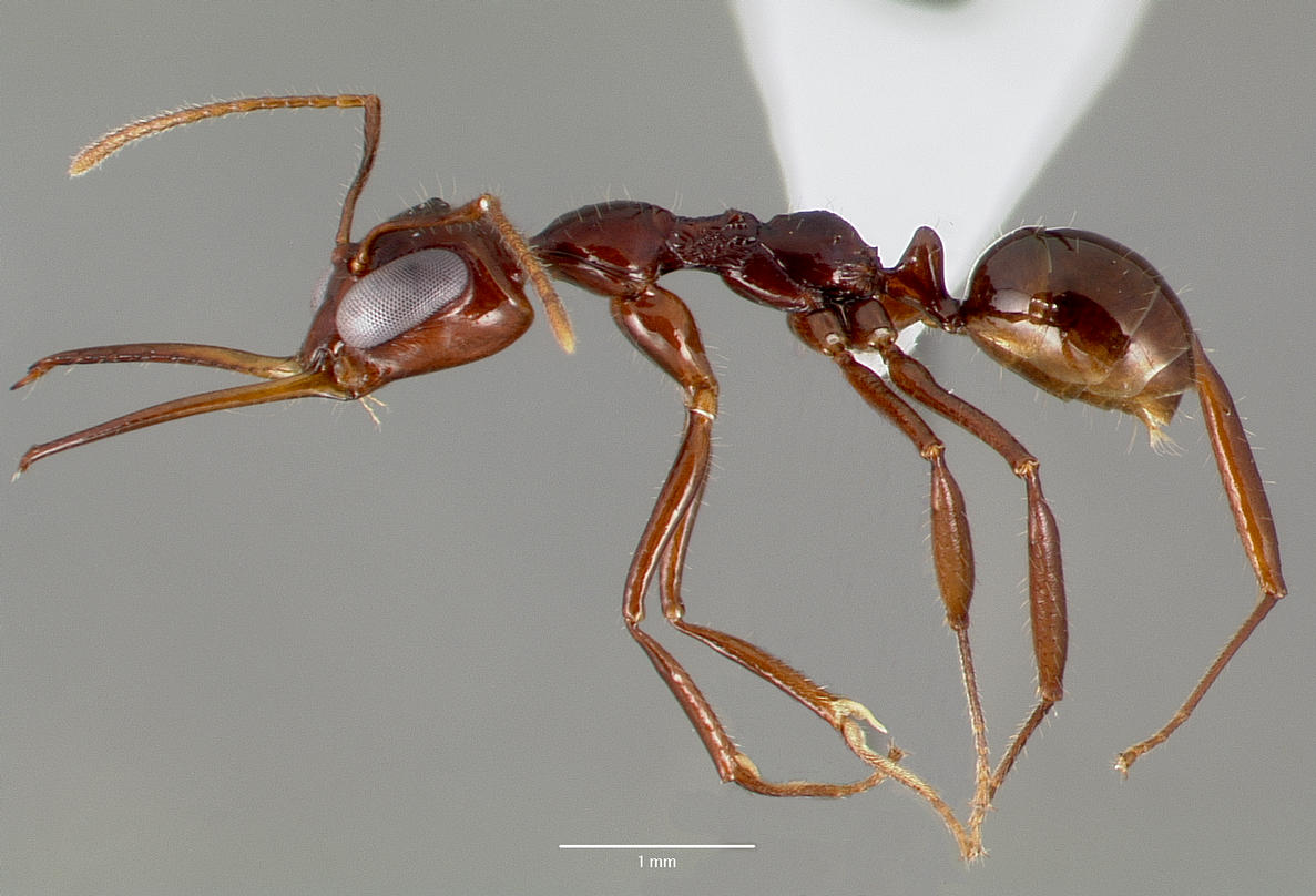 Profile view of ant Myrmoteras iriodum specimen casent0003210.